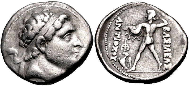 Antiochos Nikator 240-225 BC Greco-Bactrian kingdom